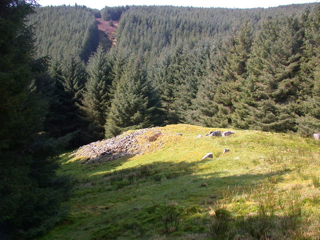 Carn Ban Chambered Cairn on Arran A 30m by 18m late neolithic (very approx 3000 BC) long cairn. Evidence of past occupation of this area. A contrast with rows of conifers planted in the 20th C. For archaeology notes